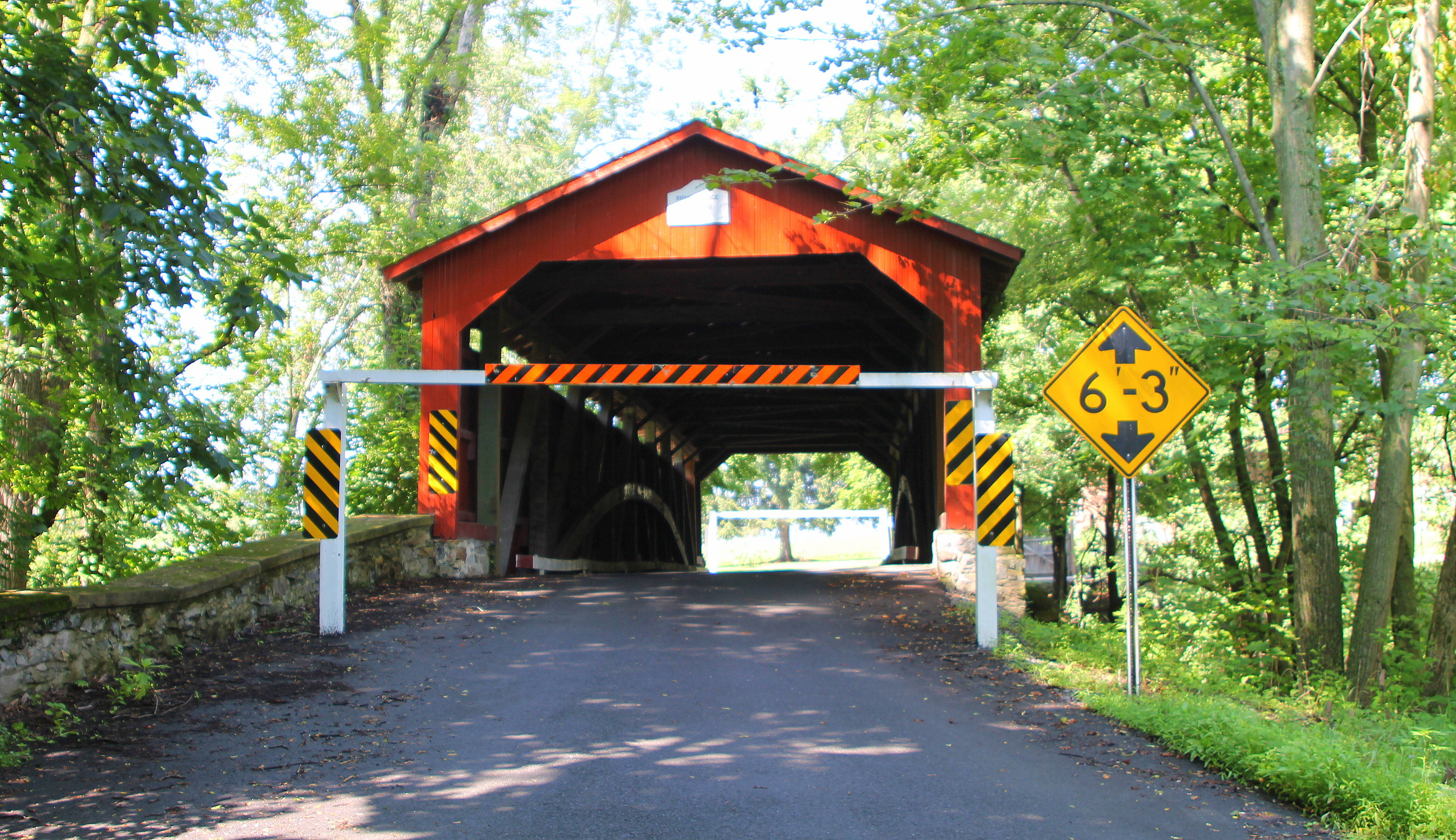 Rishel Covered Bridge in July 2015. Built 1830.